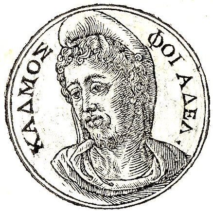 Cadmus or Kadmos, in Greek, Roman and Phoenician mythologies, was a Phoenician prince, the son of king Agenor of Tyre and the brother of Phoenix, Cilix and Europa.